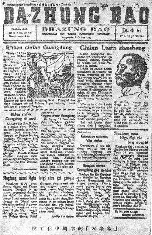 A 1932 issue of the Dazhung Bao (pinyin "Dazhongbao", simplified 大众报, traditional 大眾報), a Soviet Chinese newspaper published in Latinxua Sin Wenz alphabet